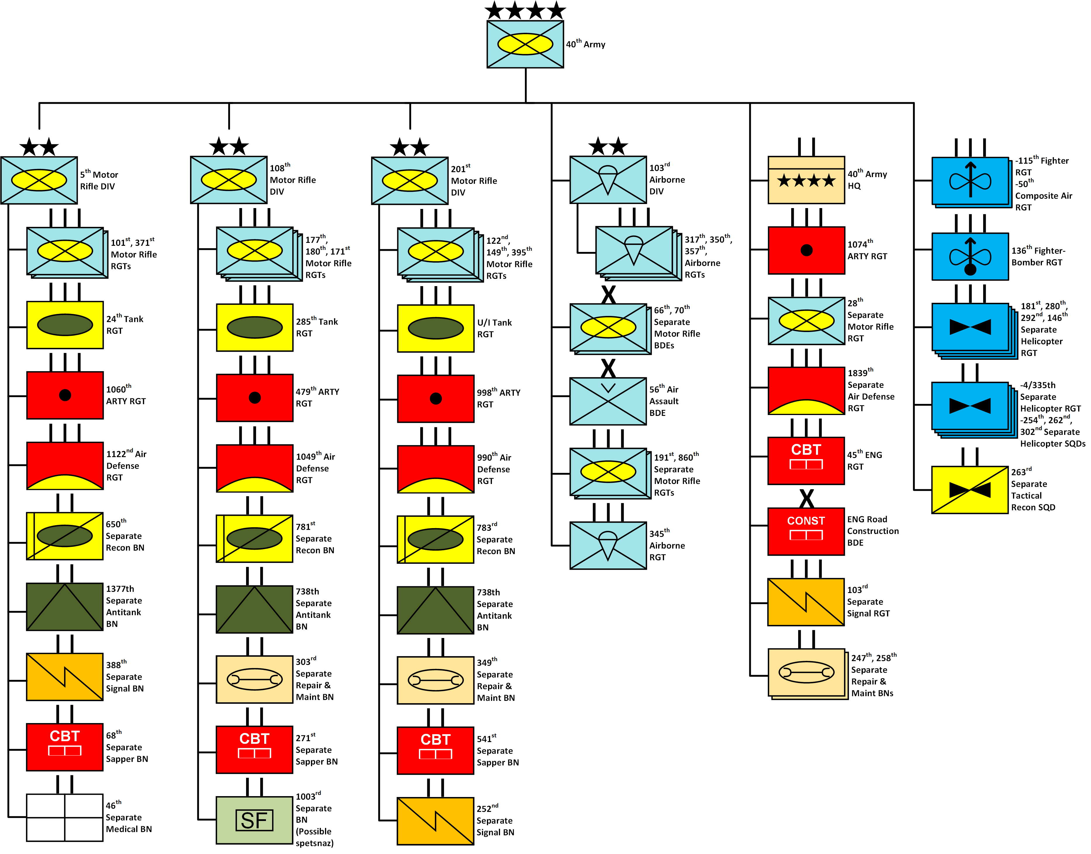 Order of battle graphic showing organization of Soviet 40th Army in the invasion of Afghanistan